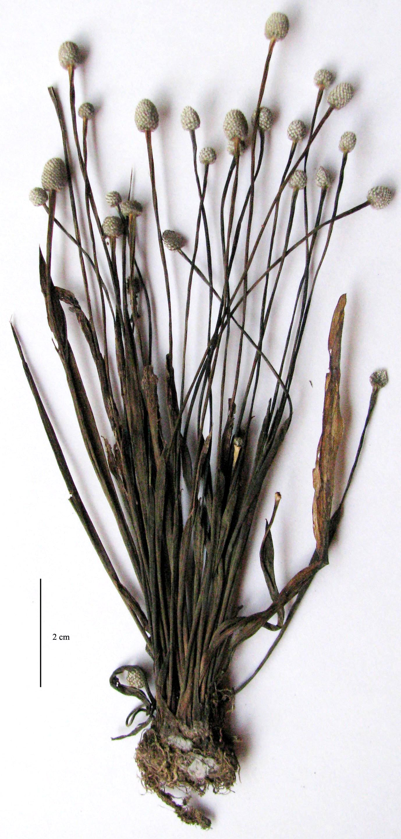 It it the photo of herbarium specimen used to describe the new species Eriocaulon madayiparense